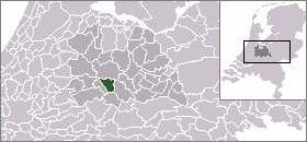 Location of Nieuwegein